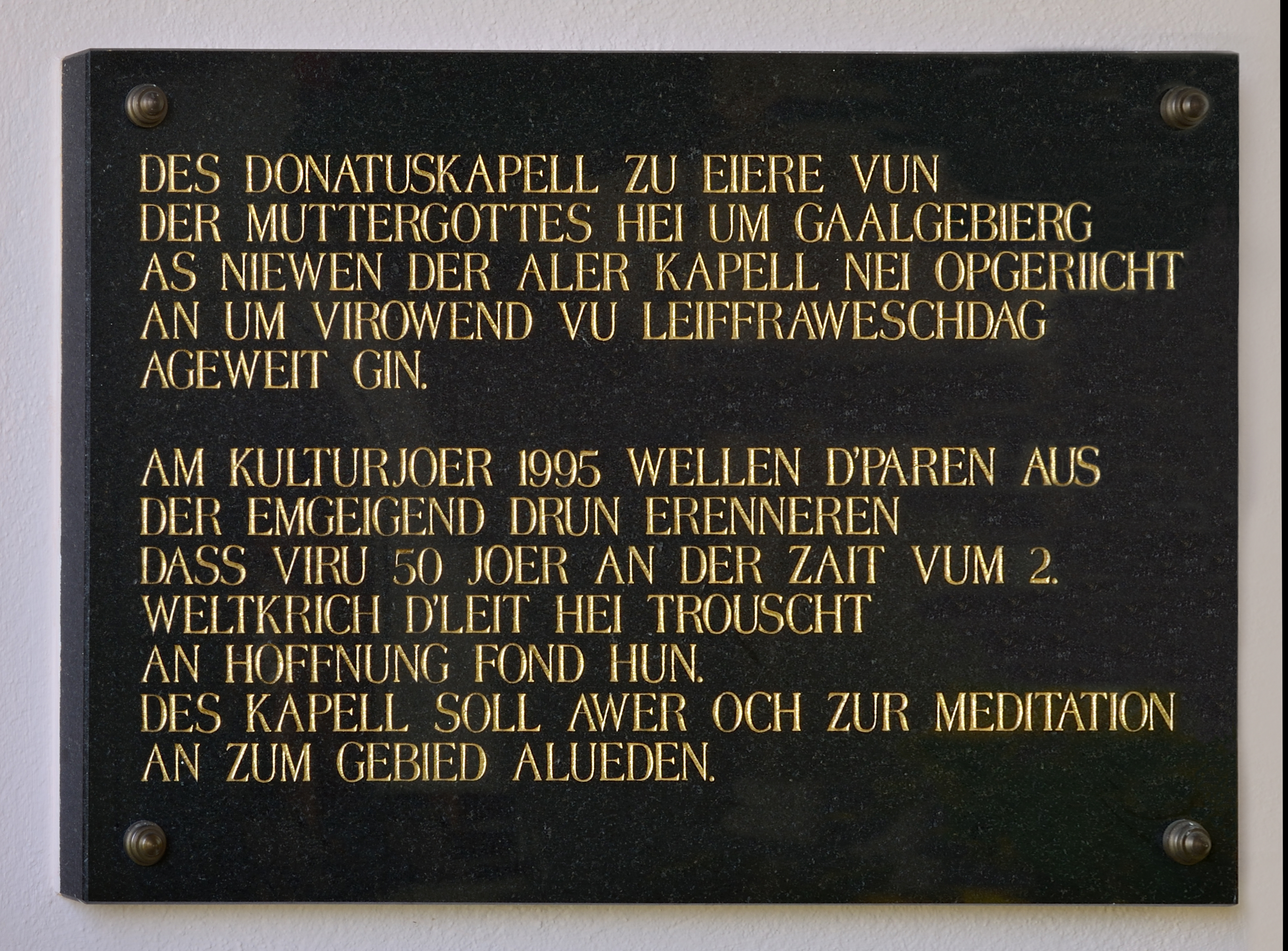 Plaque in the St Donatus' Chapel in Roeser, Luxembourg